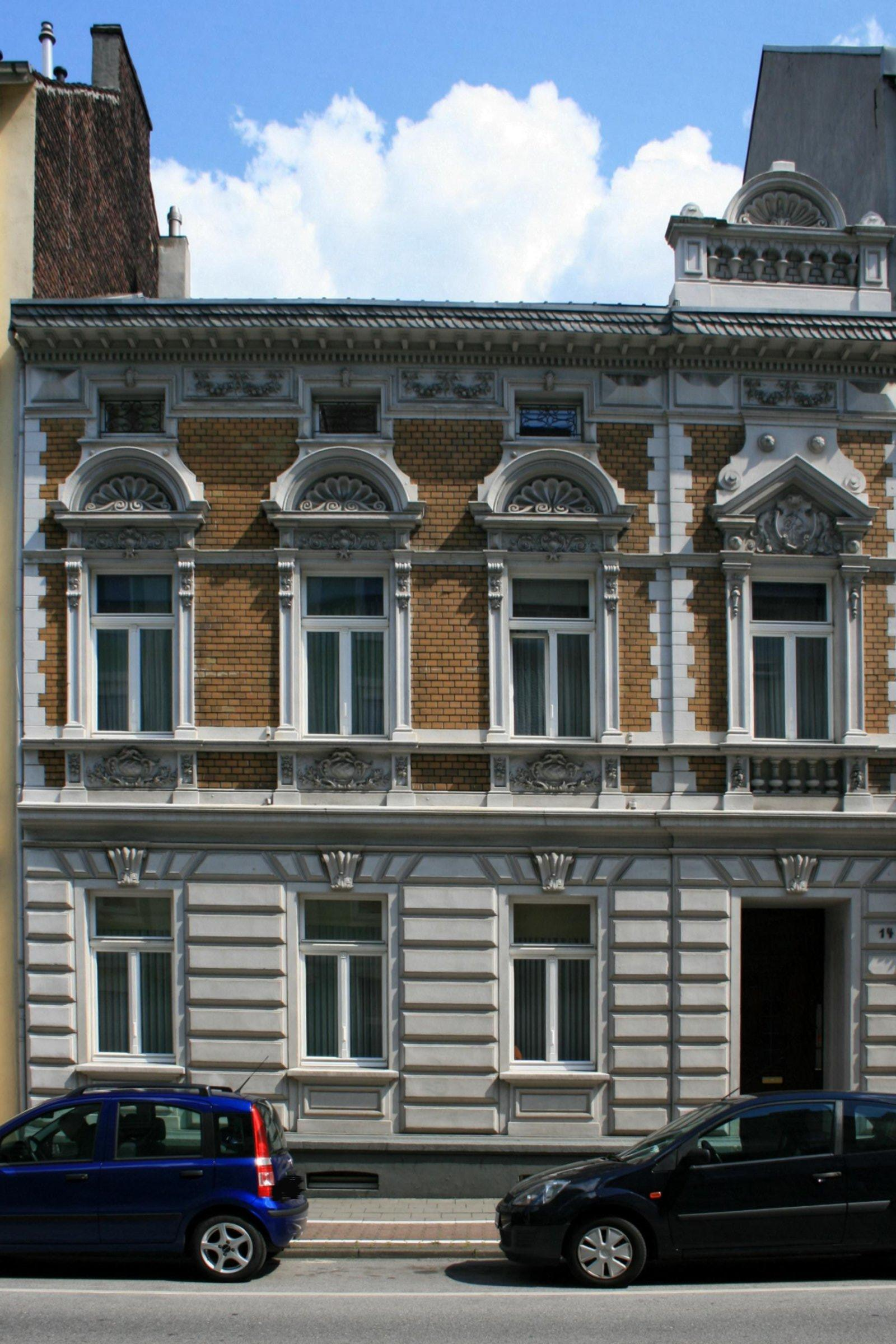 Cultural heritage monument No. B 056 in Mönchengladbach